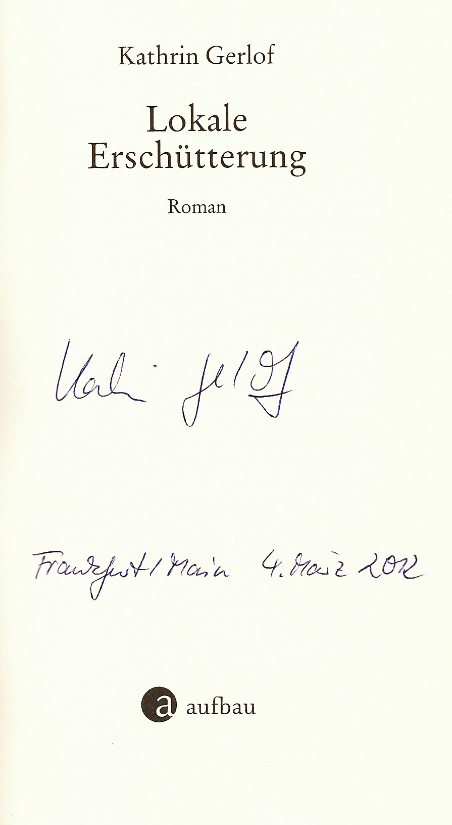 Autograph from Kathrin Gerlof, German writer, 2012 in Frankfurt am Main, Germany.